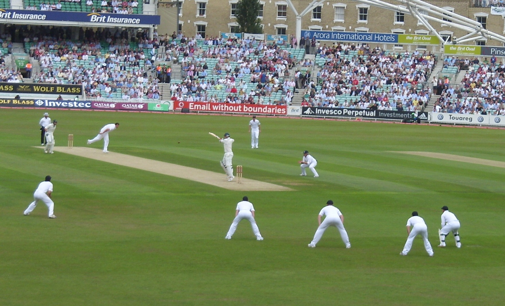 The Oval cricket ground England v South Africa. First Ball.